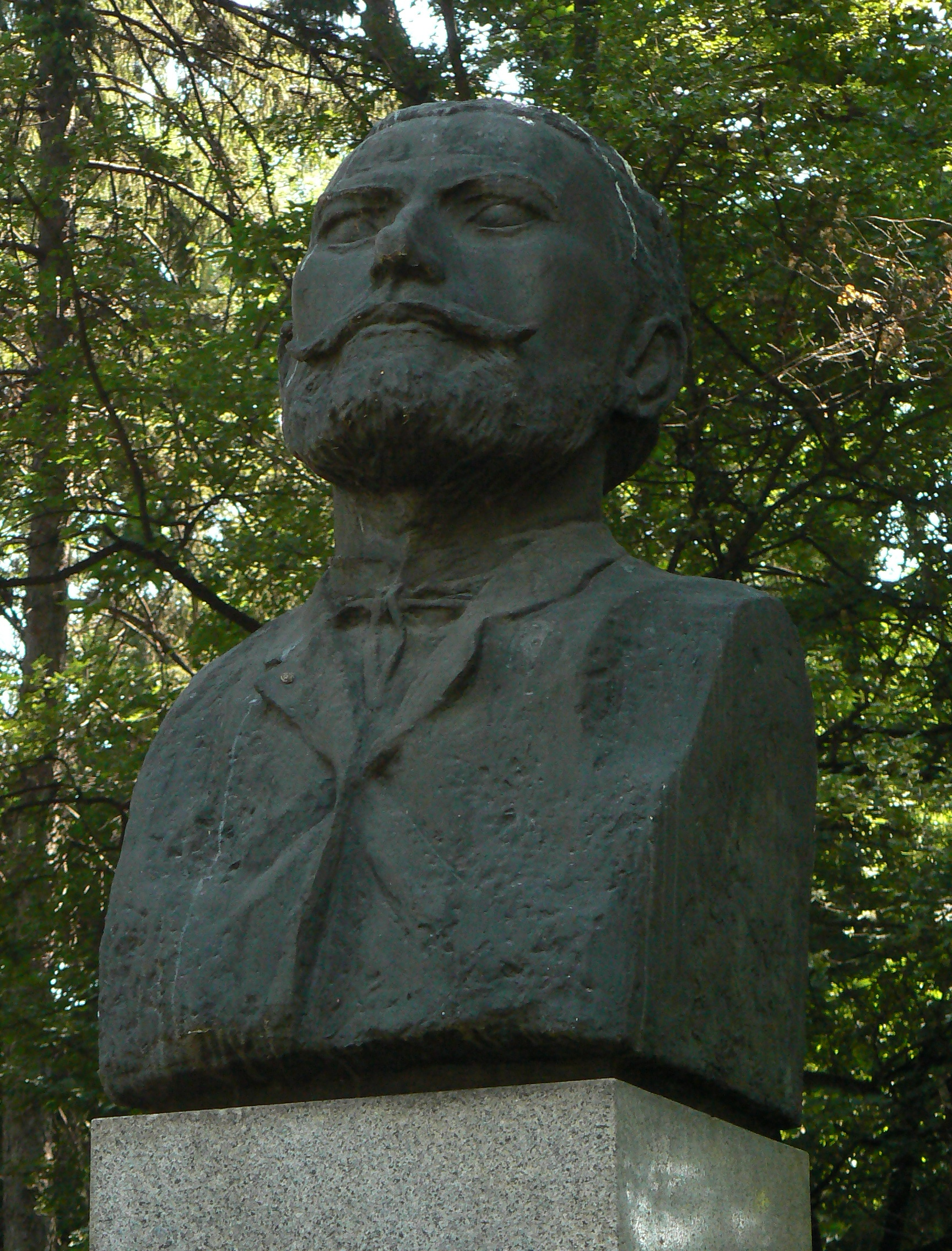 Monument of Bulgarian writer Zahari Stoyanov (1850-1889) in Borisova Garden, Sofia